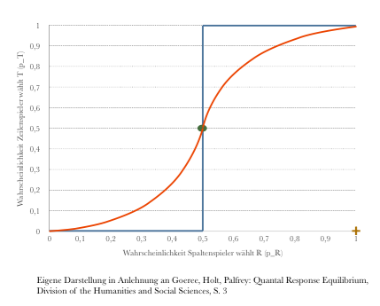 Grafische Darstellung, Anwendung